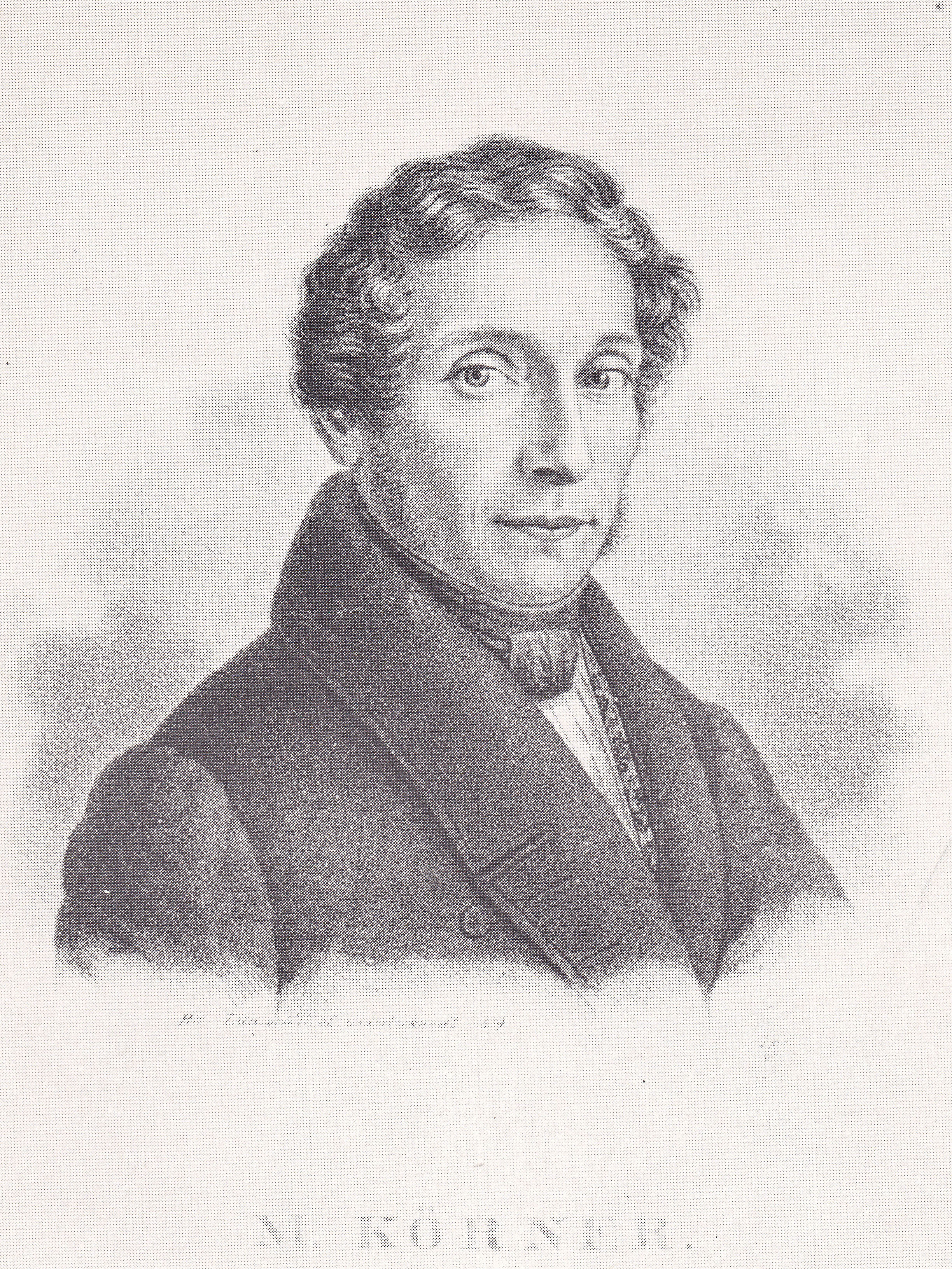 reproduction of print from 1859